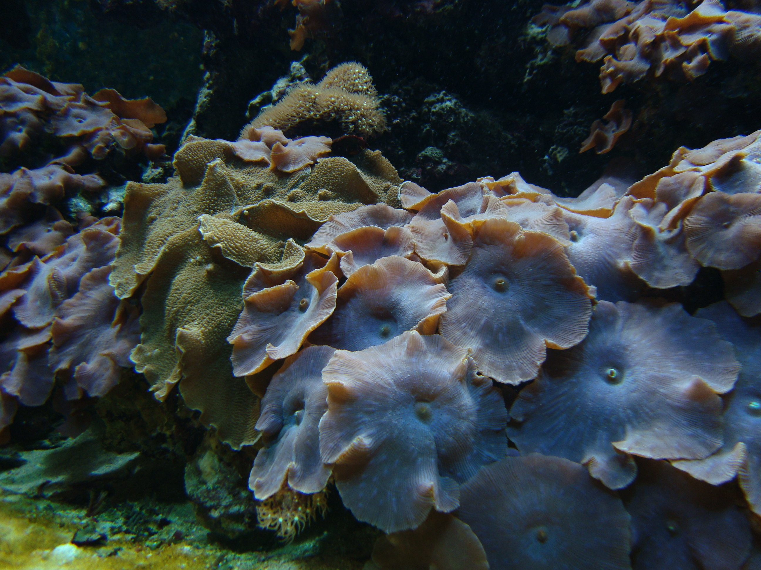 Mushroom corals at the Vancouver Aquarium in British Columbia.